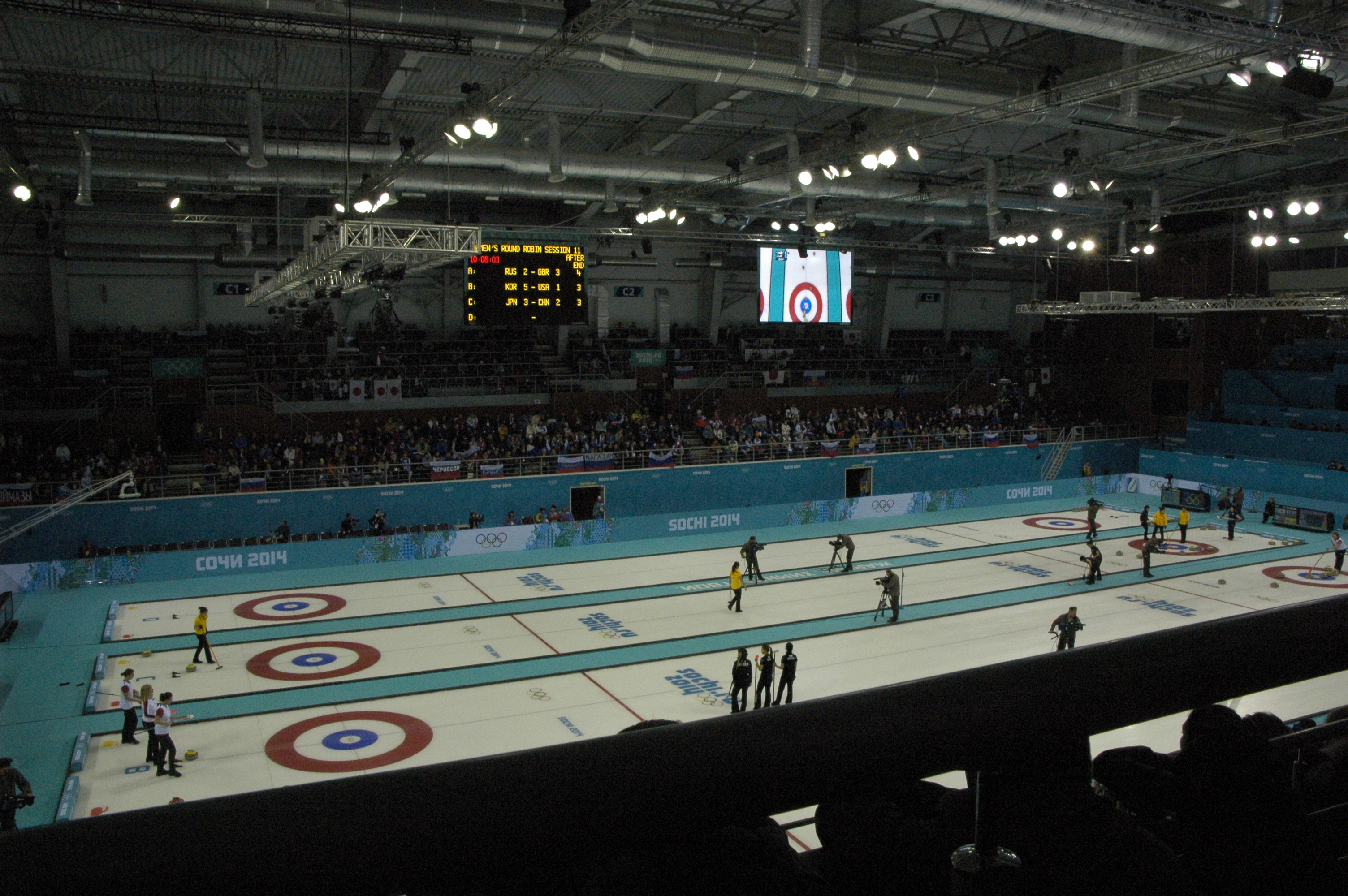 Women's tournament curling, 2014 Winter Olympics, Round robin